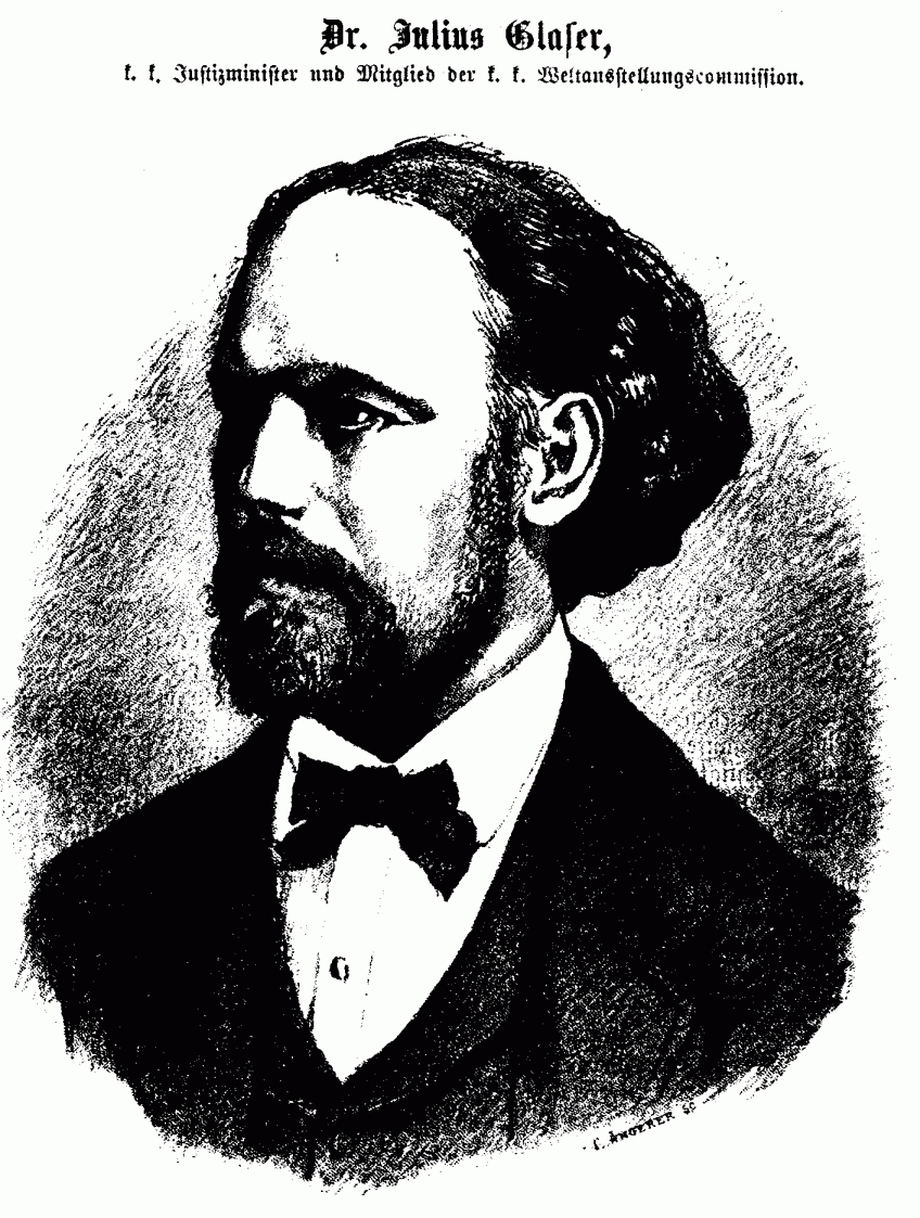 Julius Anton Glaser (1831–1885), Austrian jurist and liberal politician